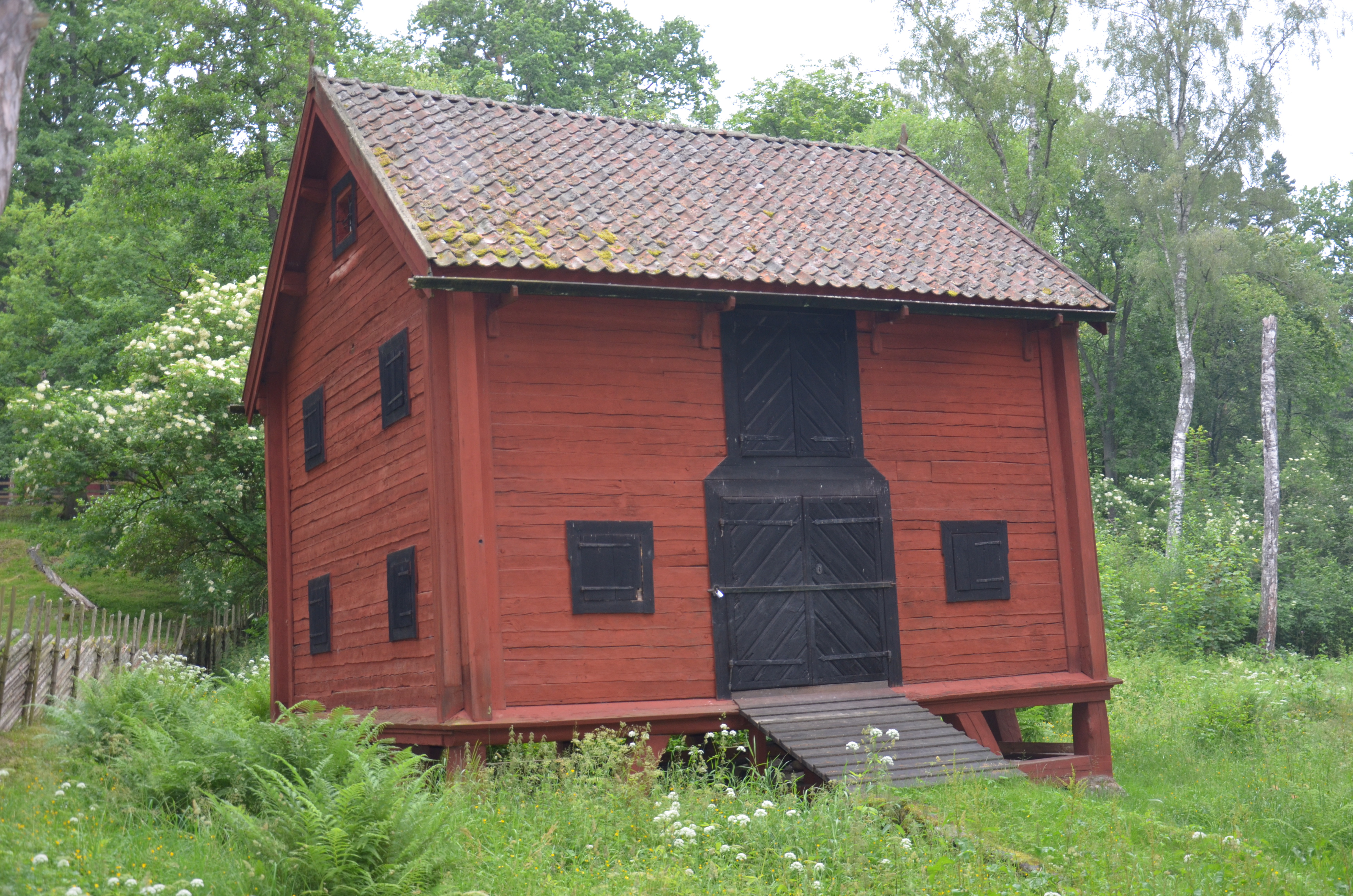 Förråds- och utrustningsbod för Mo härads kompani vid Jönköpings regemente. Har stått vid Byarums kyrka, numera i Jönköpings stadspark